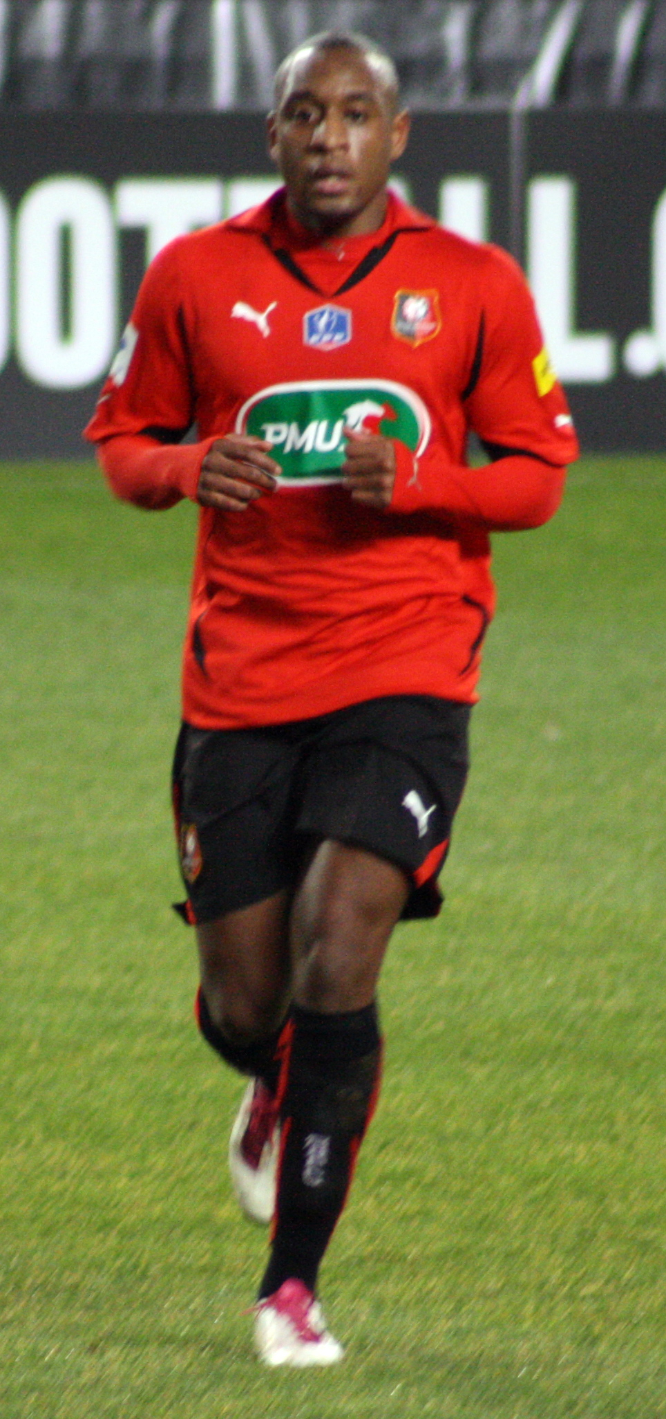 Jean-Armel Kana-Biyik, football player , with Rennes' jersey. French cup match against Cannes.